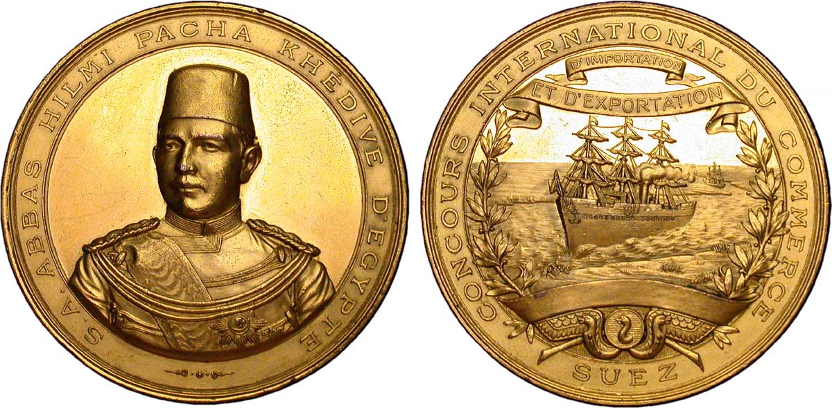 Médaille en bronze doré du concours international du commerce de Suez. Le premier canal fut commencé par le pharaon Senousret III (1887-1849 BC) et achevé par Séthi Ier et Ramsès II. Ferdinand de Lesseps (1805-1894), vice-consul de France à Alexandrie, avait convaincu le khédive Mohammed Saïd, dont il était l'ami, de construire un canal reliant la Méditerranée et la mer Rouge. Les firmans de 1854 et de 1856 préparèrent et précisèrent l'acte de concession du 25 novembre 1854 qui permettait à Ferdinand de Lesseps d'entreprendre la construction du canal. Le firman de 1856 prévoyait la libre circulation. Le capital fut souscrit par la France pour plus de la moitié et le vice-roi d'Égypte pour un quart. Les travaux commencèrent en 1859 et durèrent dix ans. Le canal fut inauguré le 17 novembre 1869. Sa longueur était en 1869 de 52 kms et sa largeur de 44 mètres.